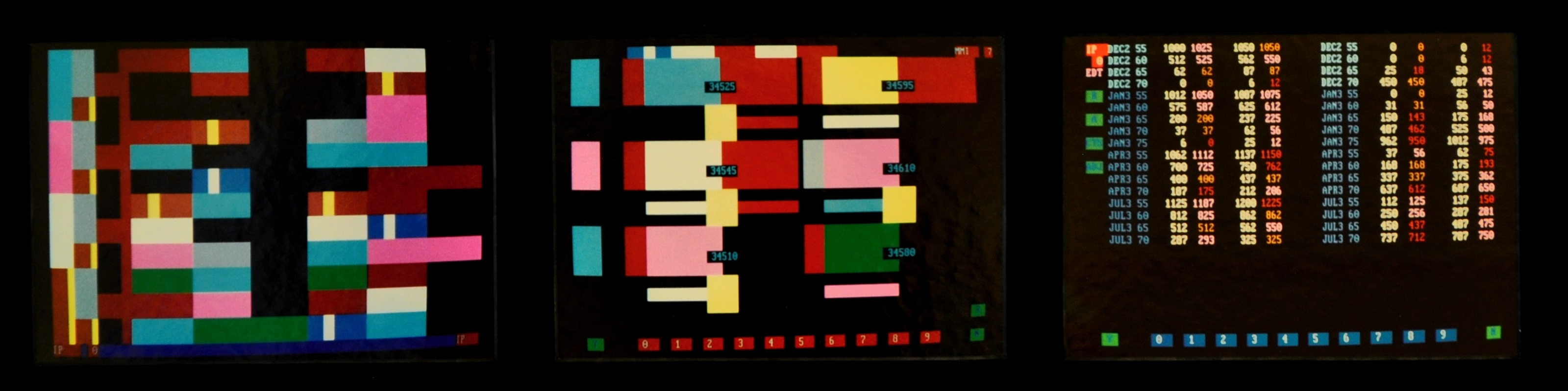 Taken at Interactive Brokers. I took this photo myself, on July 18, 2014, with my Nikon D90 camera. From an IB trader: Each color represents a number from 0-9: 0-black 1-pink 2-light blue 3-dark blue w/ white stripe 4-white 5-red 6-gray 7-brown w/ yellow stripe 8-green 9-yellow The first bar is the ‘handle’ or the dollar number, and the second bar is the fraction denominated in eighths or sixteenths. A normal size bar indicates eighths whereas a bar 1.5x the normal size means you must add 1/16 to the original fraction. Consequently a normal sized pink bar is 1/8 and a large pink bar is 3/16. Therefore a bar of: black preceding a bar of red = (0,5) = (0,5/8) = 5/8 brown w/ yellow stripe preceding light blue = (7,2) = (7,2/8) = 7.25 pink,gray = (1,6) = (1,6/8) = 1.75 We used these screens to communicate Timber Hill’s fair market values to our traders who were often 20-30 feet away from the television screens and no hand held devices existed or were allowed until the early 1990s. Sometimes we were prohibited from using even TV screens so we had to communicate all data from a clerk at our booth to the trader on the floor using hand signals. In that case, a trader would signal a quote he desired (i.e. – how are the Aug 25 calls?), and the clerk would respond (1 1/4 - 1 5/8). This meant that TH would buy a certain size of those calls paying 1.25 and would sell the same calls no lower than 1.625. The TH trader would then attempt to trade under those parameters and would then signal back to the clerk as to how many he BOT/SLD, and the clerk would manually input the trade into the touch screen so that the risk would be loaded into the trading system which could then change other prices and start the hedging process. As you can imagine, there were lots of frayed nerves and lots of errors.